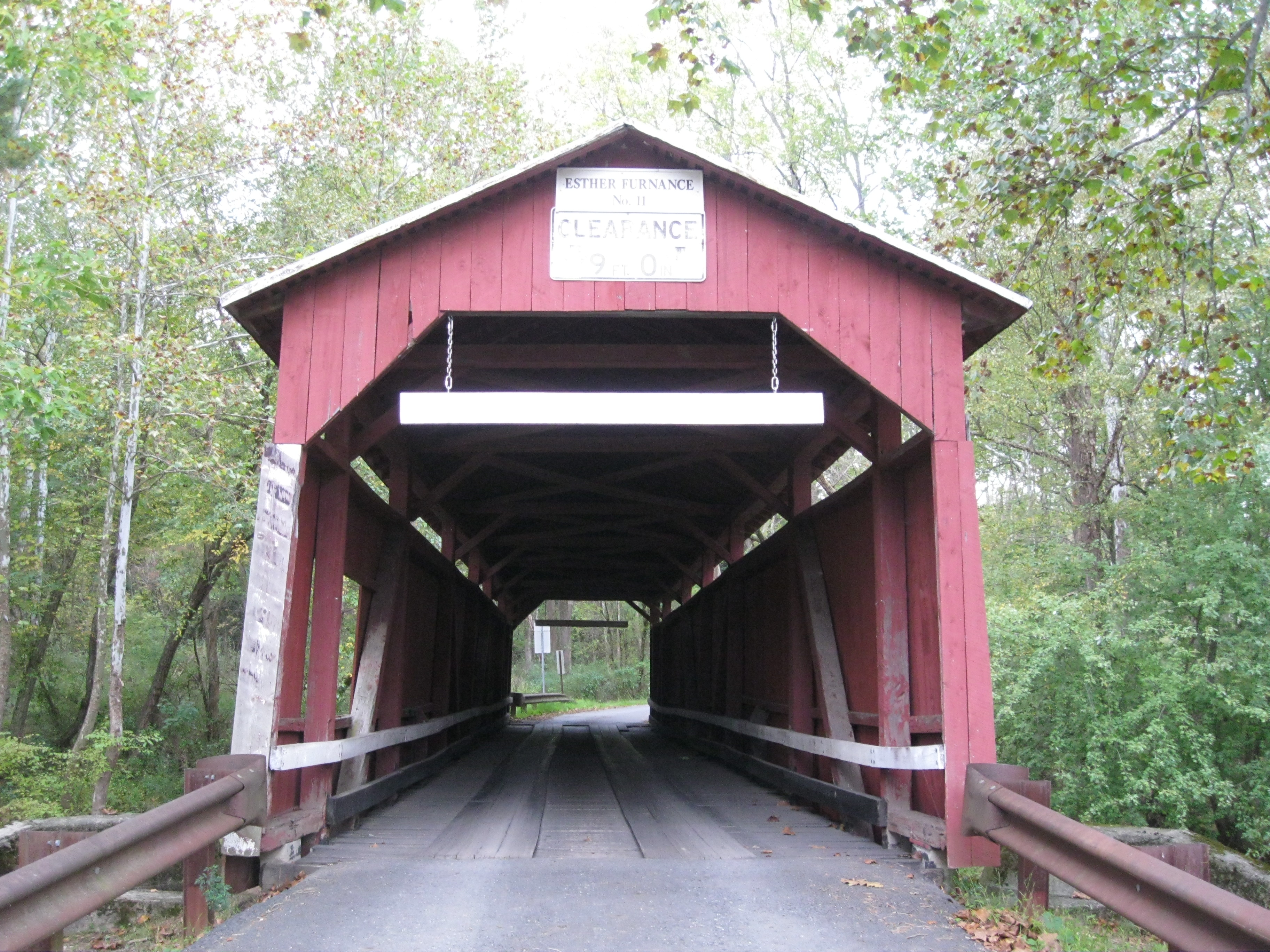 Furnace Covered Bridge No. 11 originally built in 1882 over the North Branch of Roaring Creek in Cleveland Township in Columbia County, Pennsylvania, in the United States.